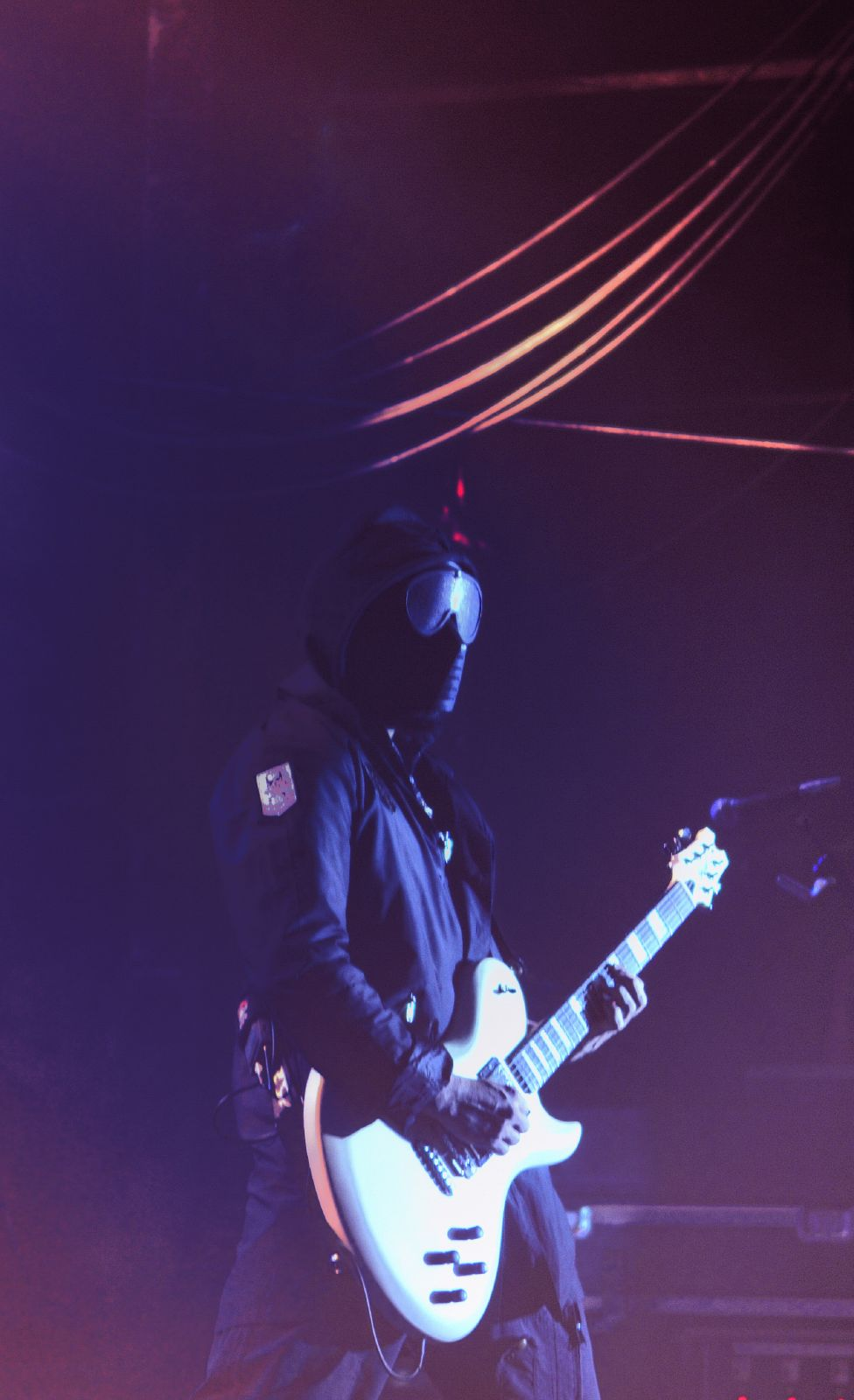 Mike Stone in Queensrÿche, Operation: Mindcrime I and II concert in Barcelona.